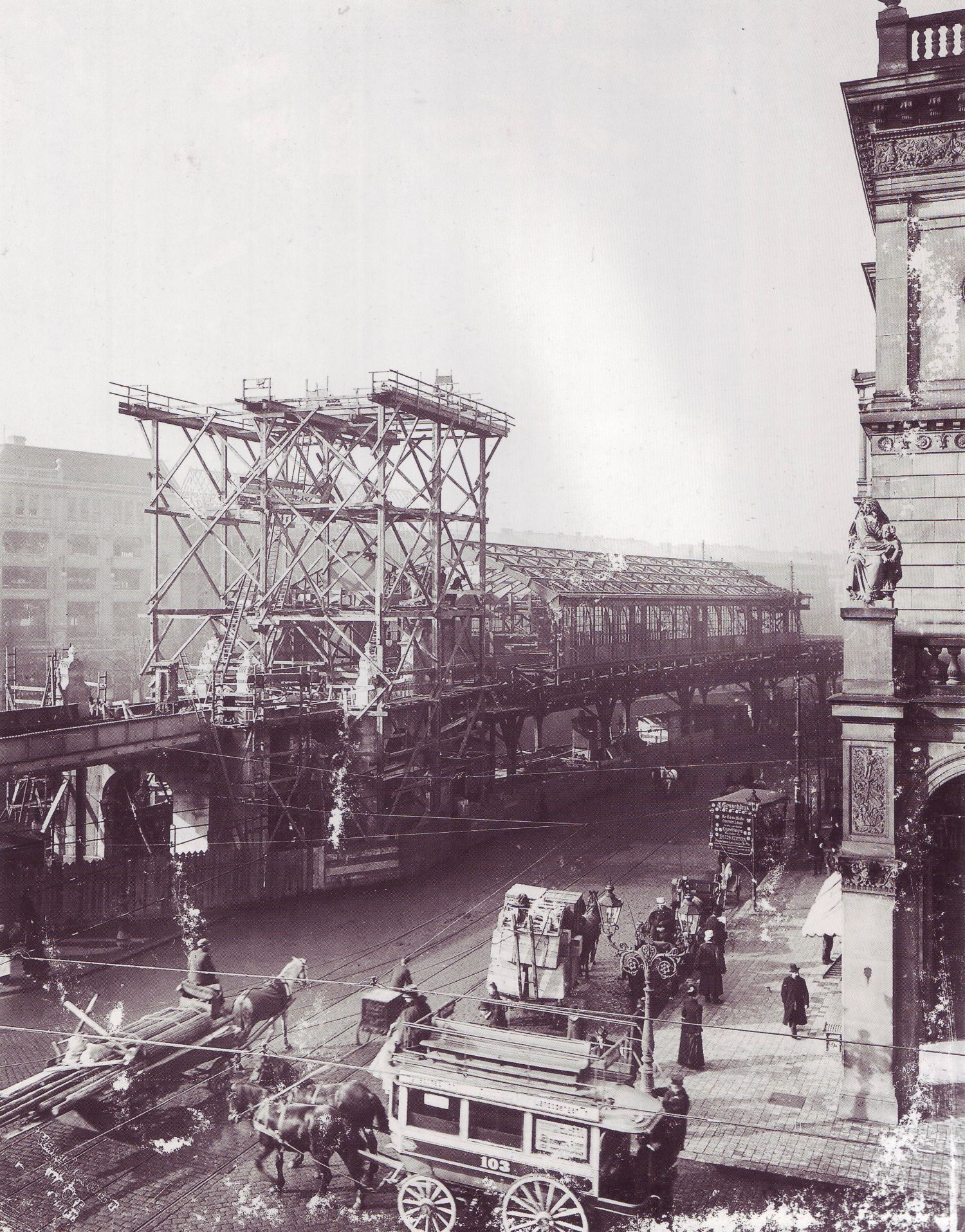 Hallesches Tor train station in Berlin under construction, 1901